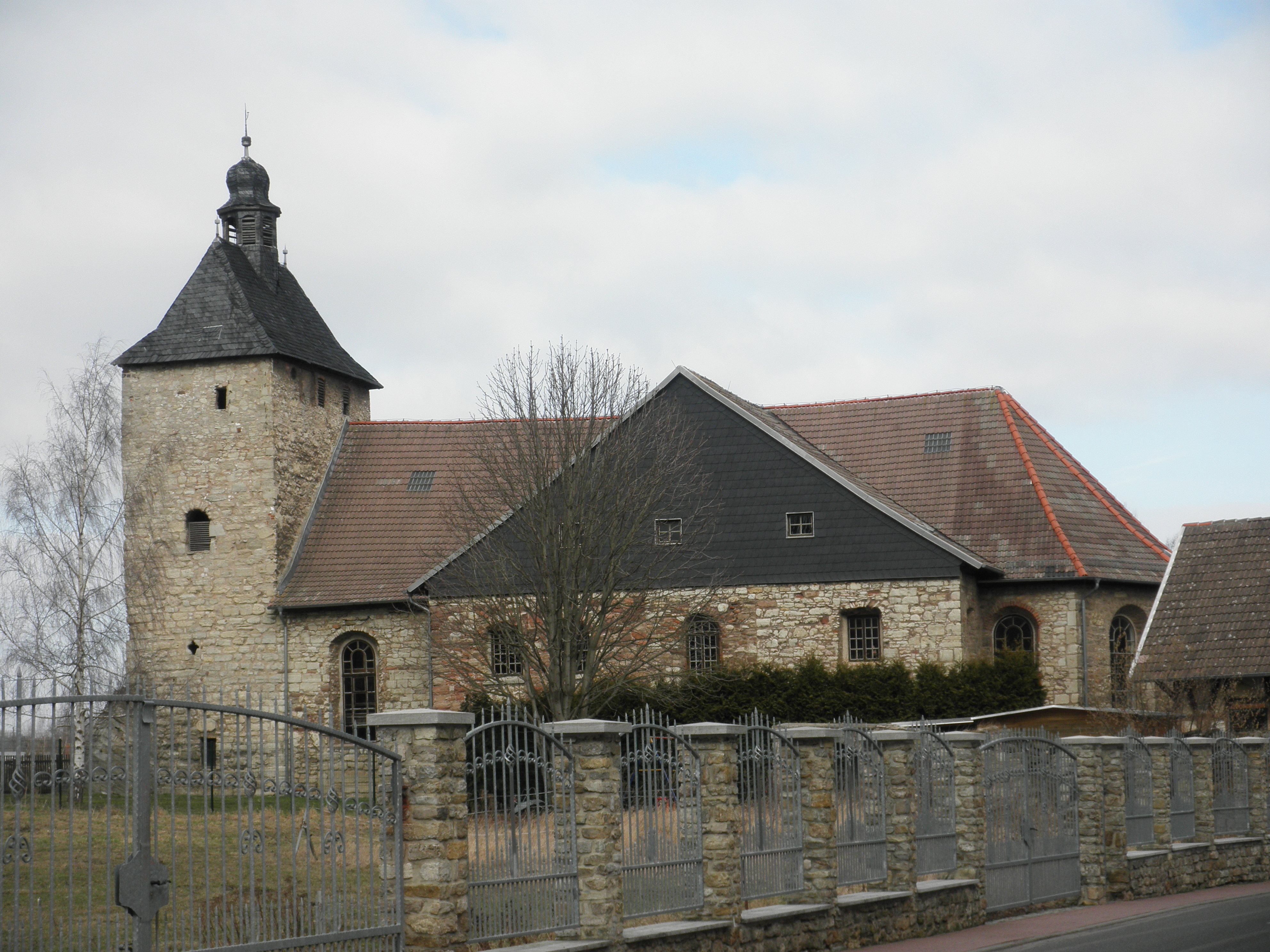 Church in Wolkramshausen in Thuringia